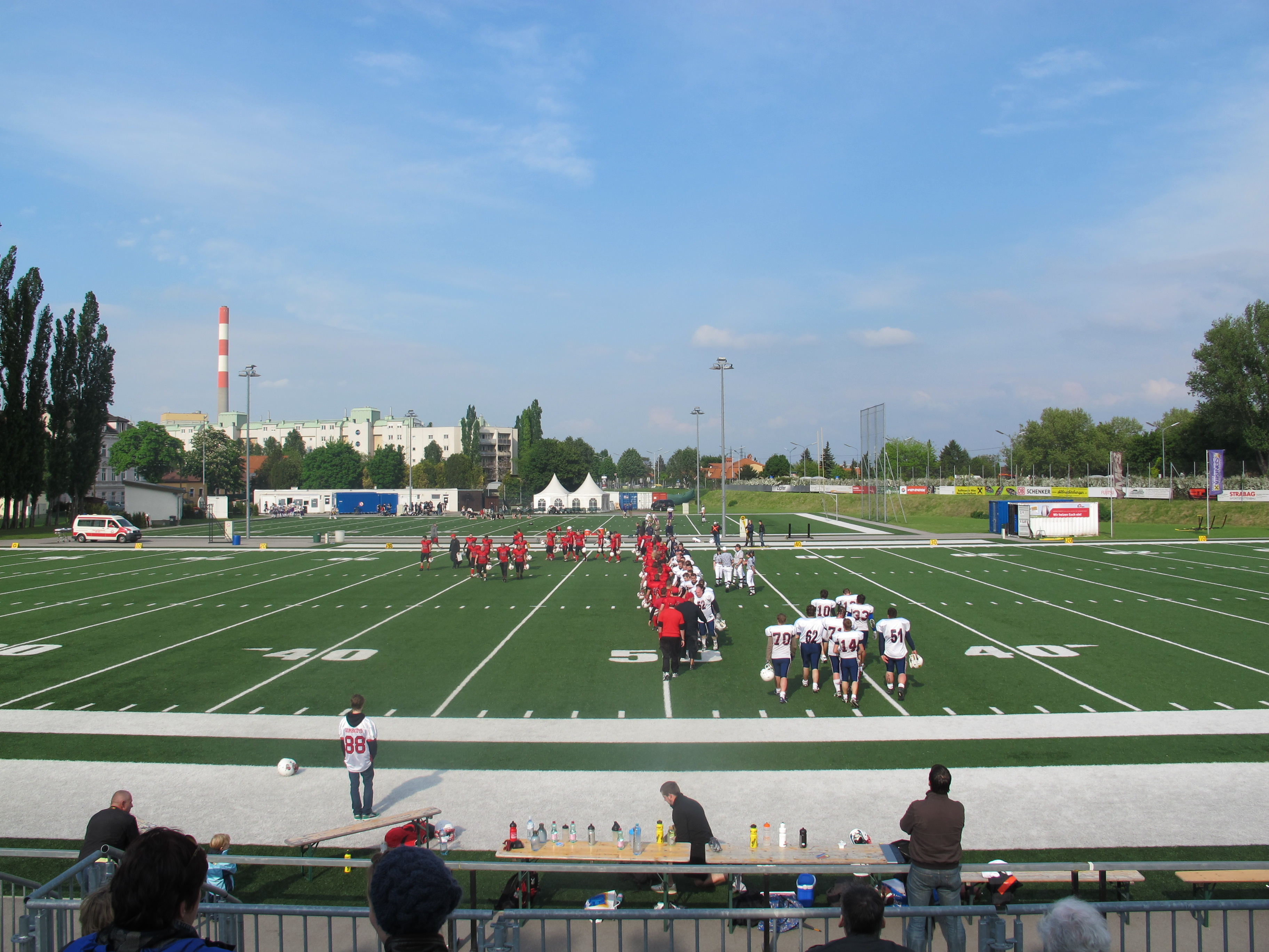 Footballzentrum Ravelinstraße with Amstetten Thunder and Vienna Warlords handshake.